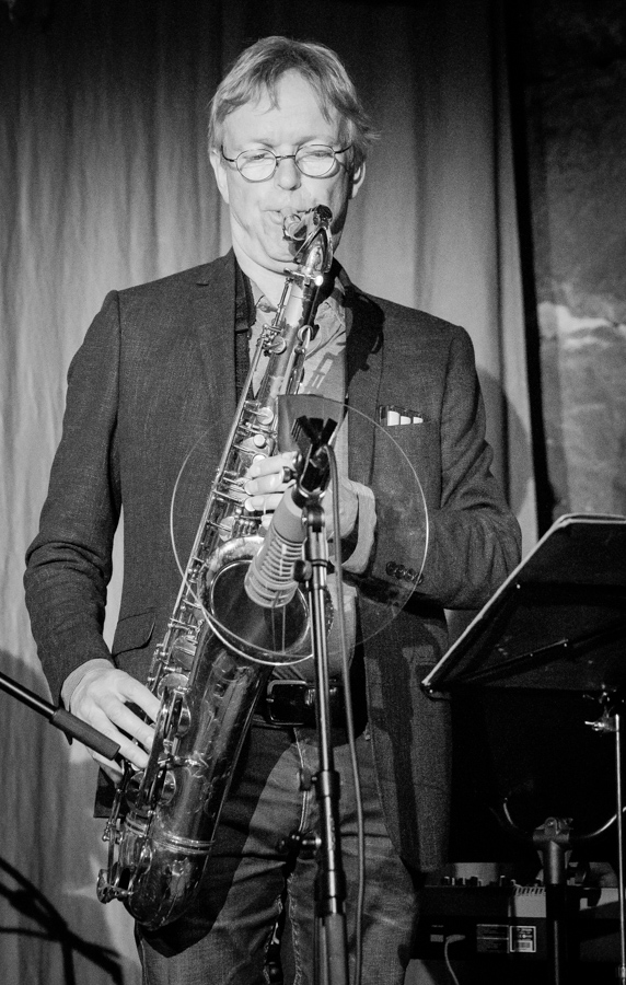 Jan Kåre Hystad with Vargtime and Gunnar Staalesen at the stage at Løa Jølstraholmen. The concert was part of Jazz på Jølst and took place on 12. October 2017. Lineup: Gunnar Staalesen (spoken words), Jan Kåre Hystad (saxophone), Dag Arnesen (piano), Ole Marius Sandberg (bass guitar) and Frank Jakobsen (drums).